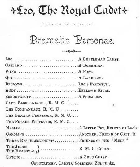 Leo, the Royal Cadet, Dramatis Personae; 1889 opera by Oscar Ferdinand Telgmann